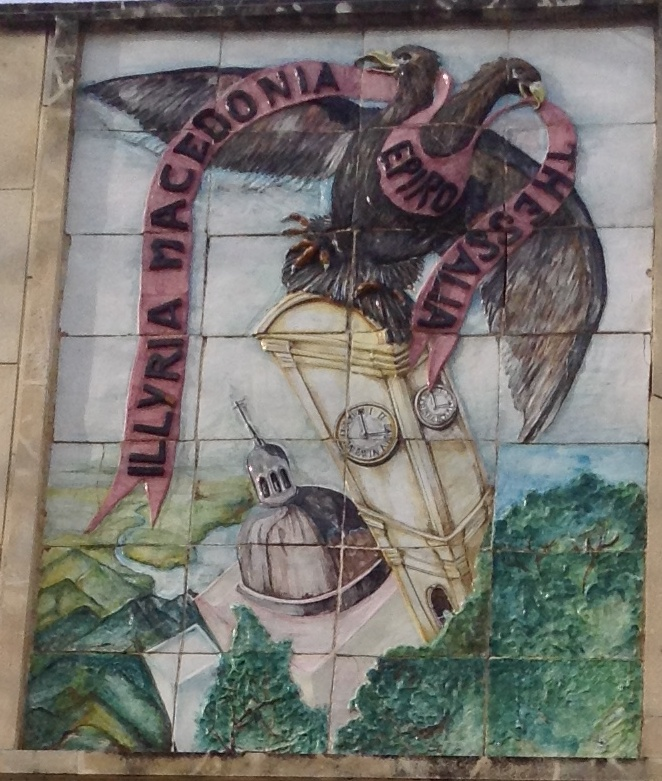 Azulejo; from Illyria, Macedonia, Epirus, Thessaly to San Marzano di San Giuseppe; from the Byzantine rite to the Roman Rite